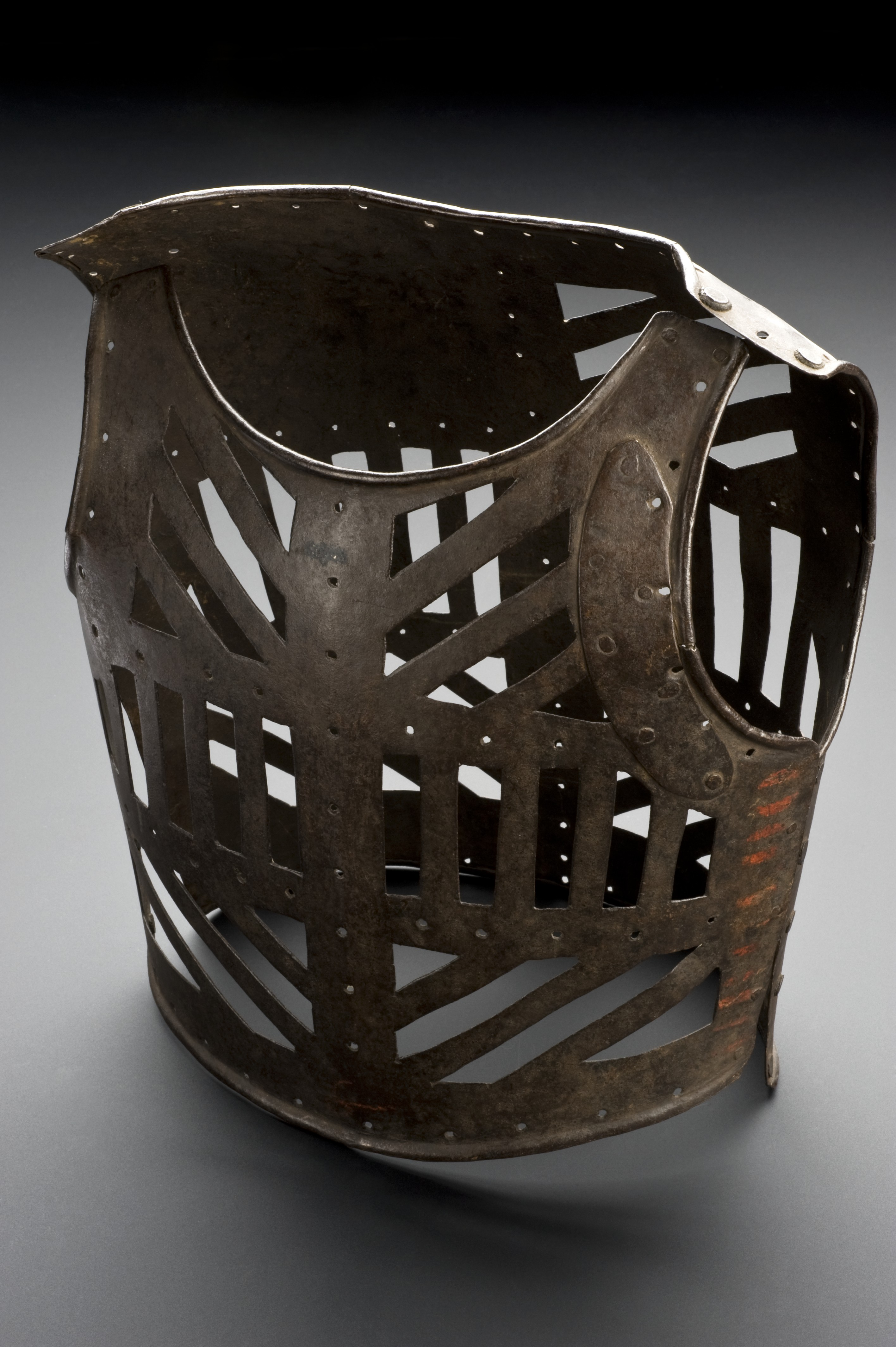 Made for a child, the smaller piece of this iron corset would have been worn against the chest with the larger section supporting the back. The corset was probably worn to support the spine and perhaps gradually improve posture. Throughout the 1800s, skeletal tuberculosis was a fairly common disease of childhood and survivors were often left with severe spinal deformation that might have required the use of such a corset. The iron from which it was made would have made it very uncomfortable to wear for long periods of time. The corset was purchased for £4,400 by Henry Wellcome in June 1928 as part of a collection that had previously belonged to Noel Hamonic (active 1850-1928). The collection consisted mainly of surgical instruments. maker: Unknown maker Place made: Europe Wellcome Images Keywords: corset